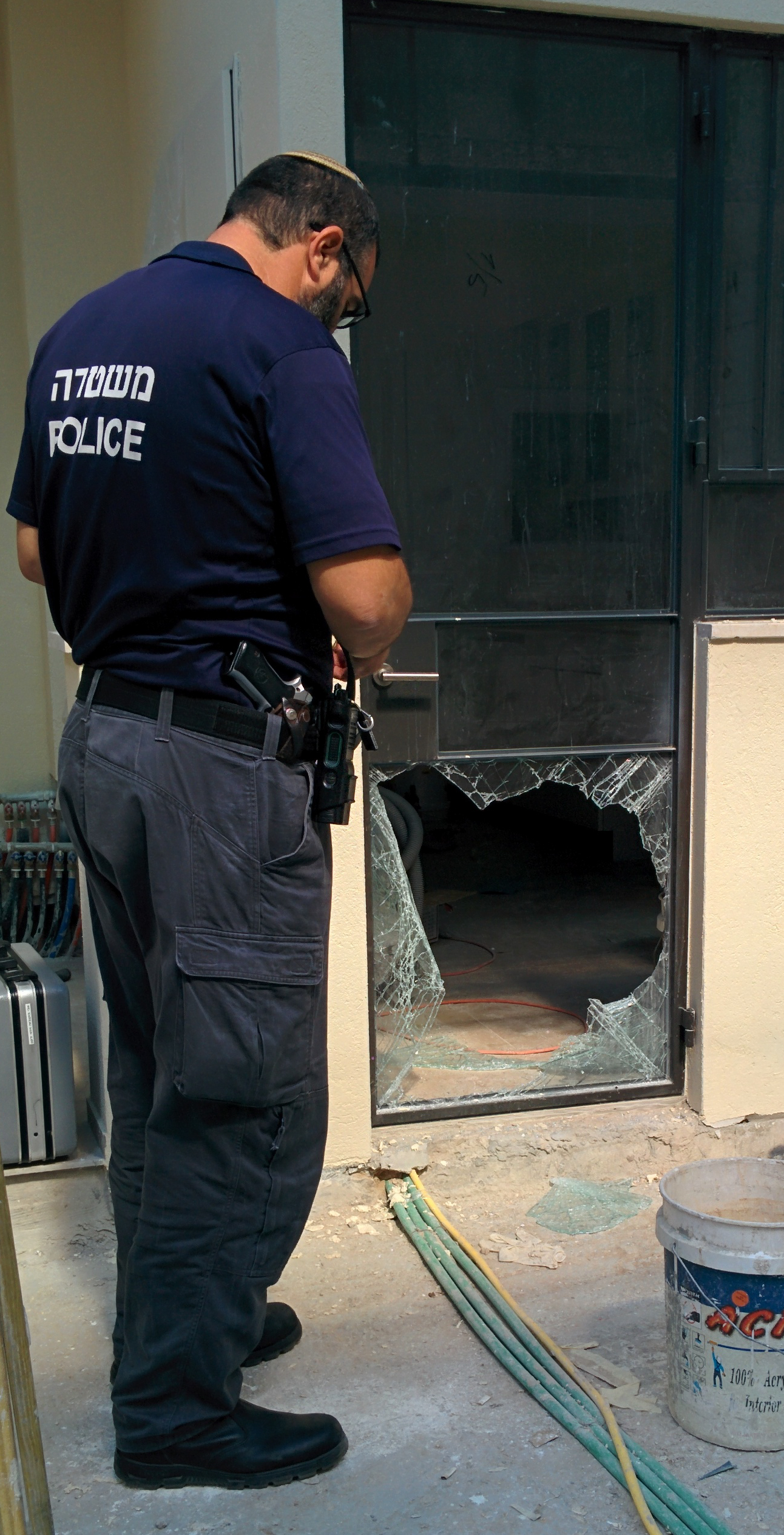 Israeli forensic policeman inspects a burglary scene.